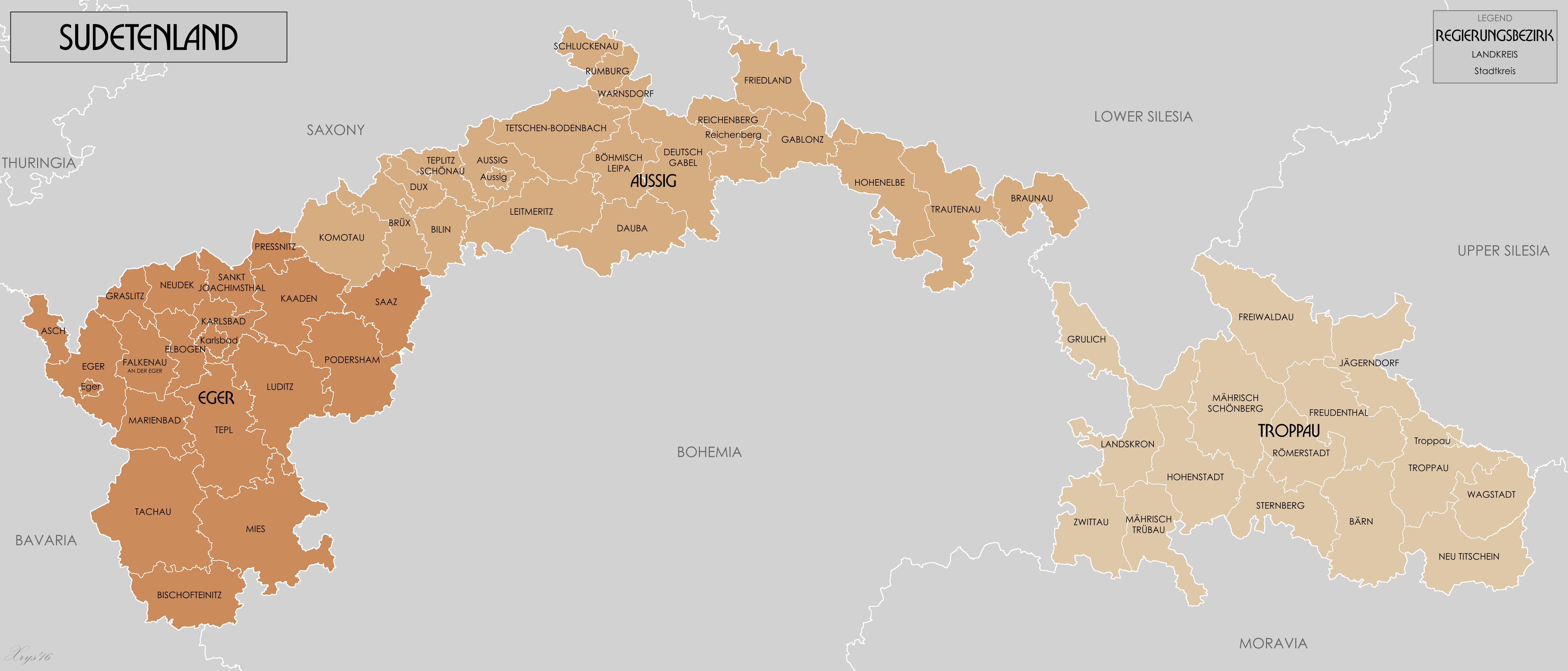 Administrative map of Reichsgau Sudetenland in 1944. Source GIS Data digitised from Karte des Deutschen Reiches 1:100 000 and Karte von Mitteleuropa 1:300k. Some source maps from WIG (